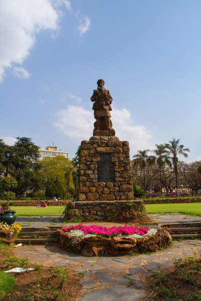 This media shows a South African Protected Site with SAHRA file reference 9/2/258/0088.